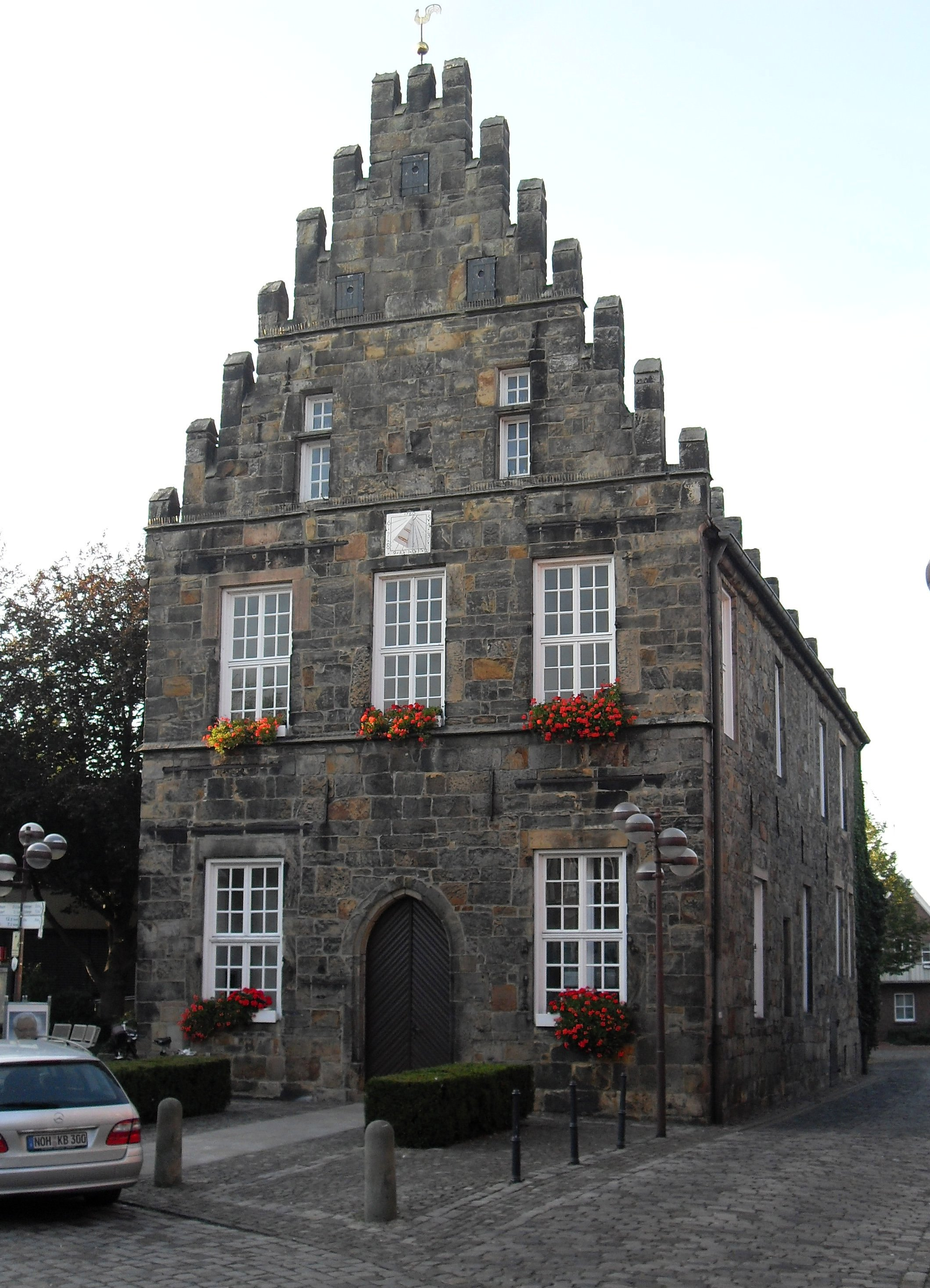 Historic town hall in Schüttorf Germany in the town´s centre